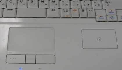 Suica/Pasmo contactless card reader on a Japanese Nec Lavie Laptop